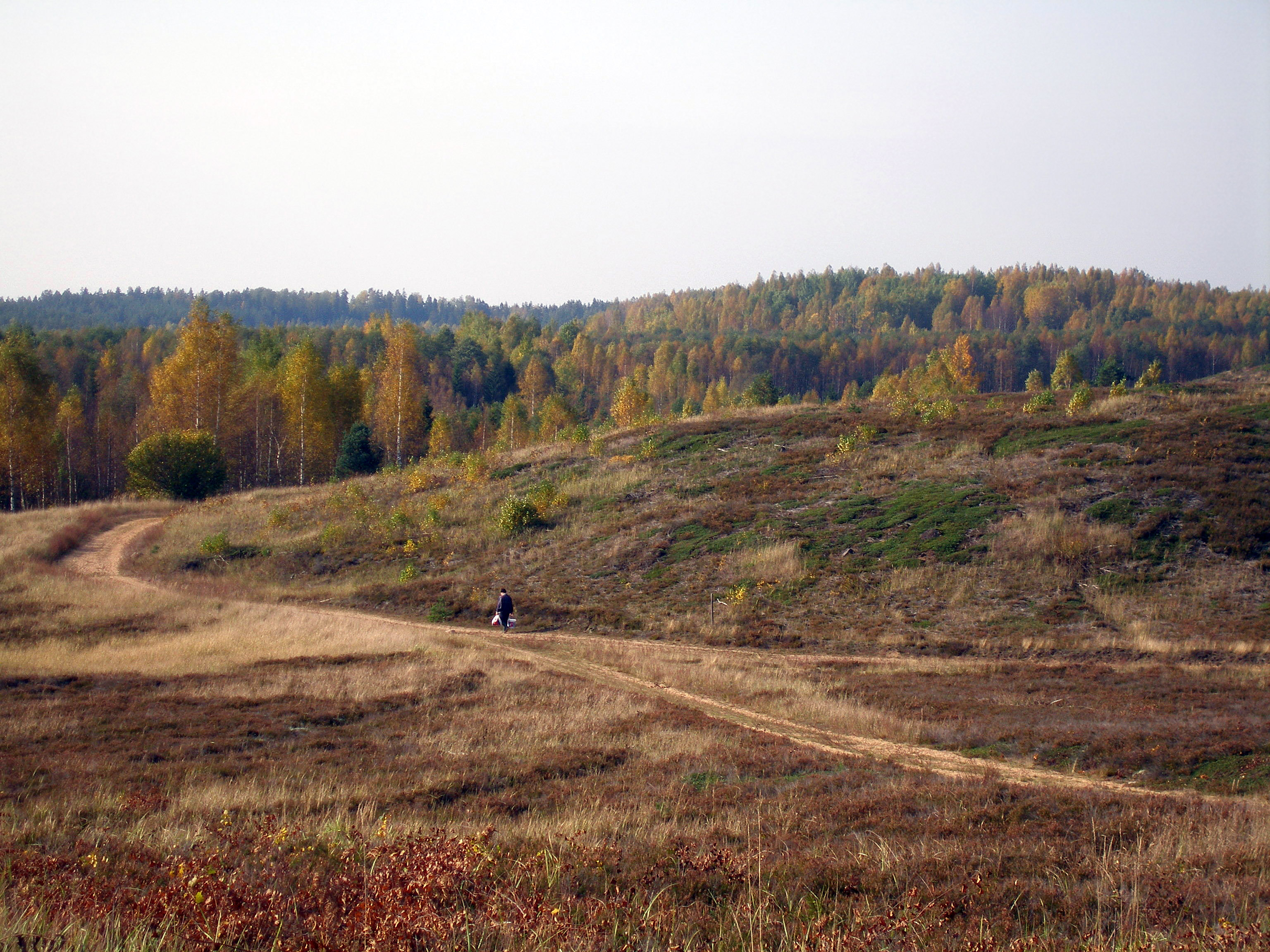 Jussi heath in Põhja-Kõrvemaa Nature Reserve (Northern Estonia) in autumn.